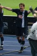 Rudolf Skácel celebrating with the fans after a Bundesliga match of Hertha BSC